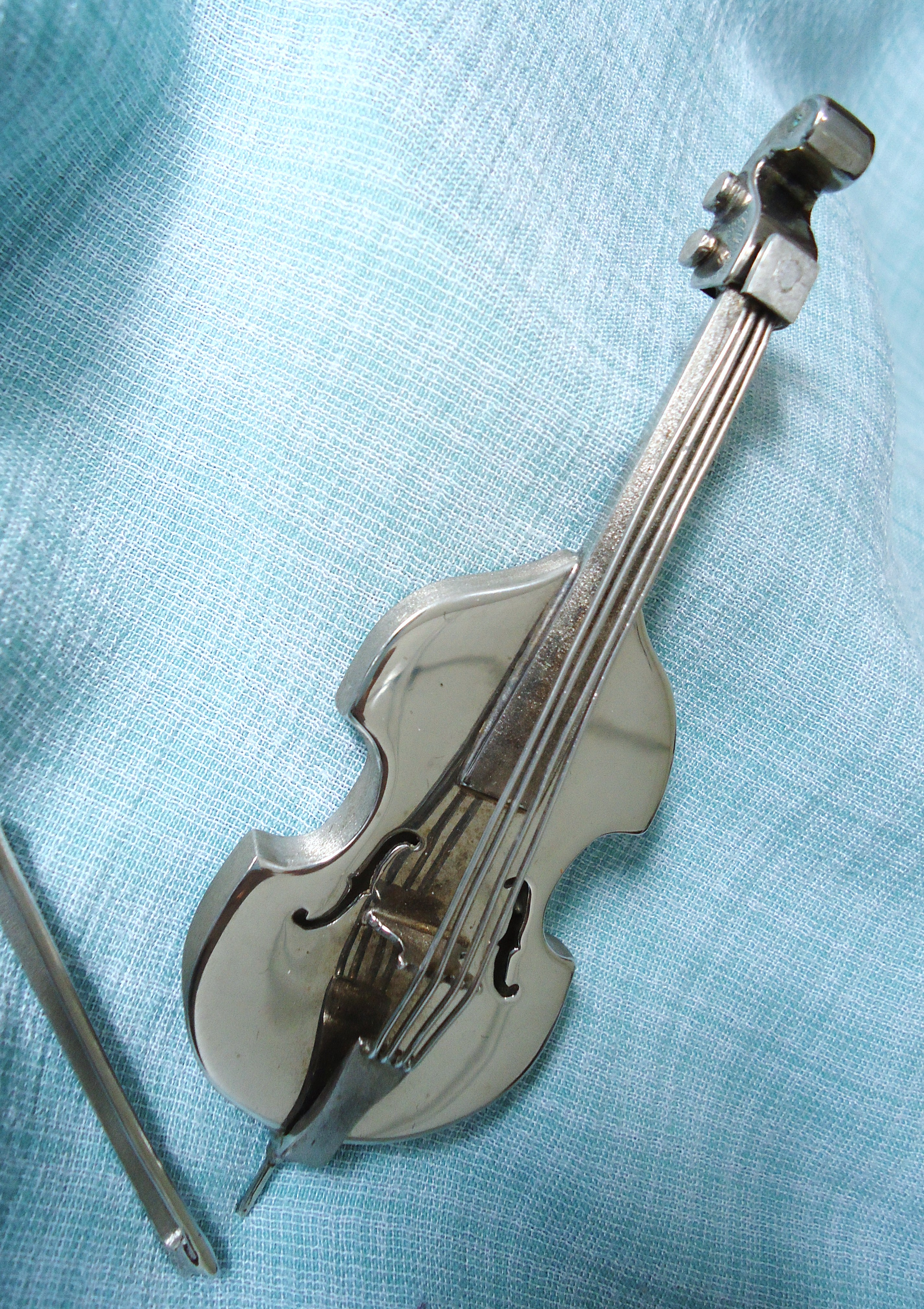 Miniature double-bass: rhodium-plated 950-silver. Length: 125 mm. Weight: 32 g. Made by Mauro Cateb, Brazilian jeweler and silversmith.